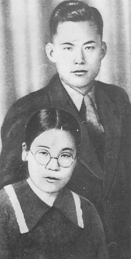 Teru Hasegawa and Liu Ren